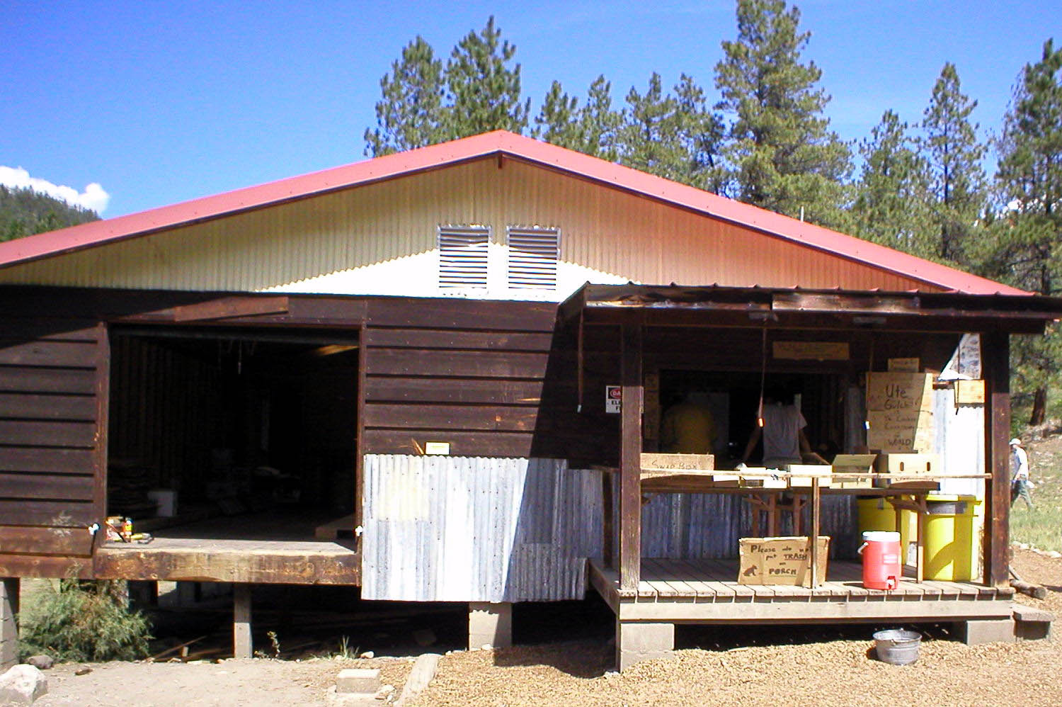 Ute gulch at the Philmont Scout Ranch